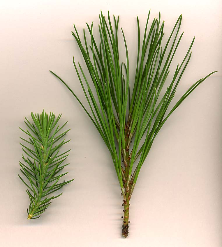 juvenile (left) and adult (right) foliage of Stone Pine (Pinus pinea)